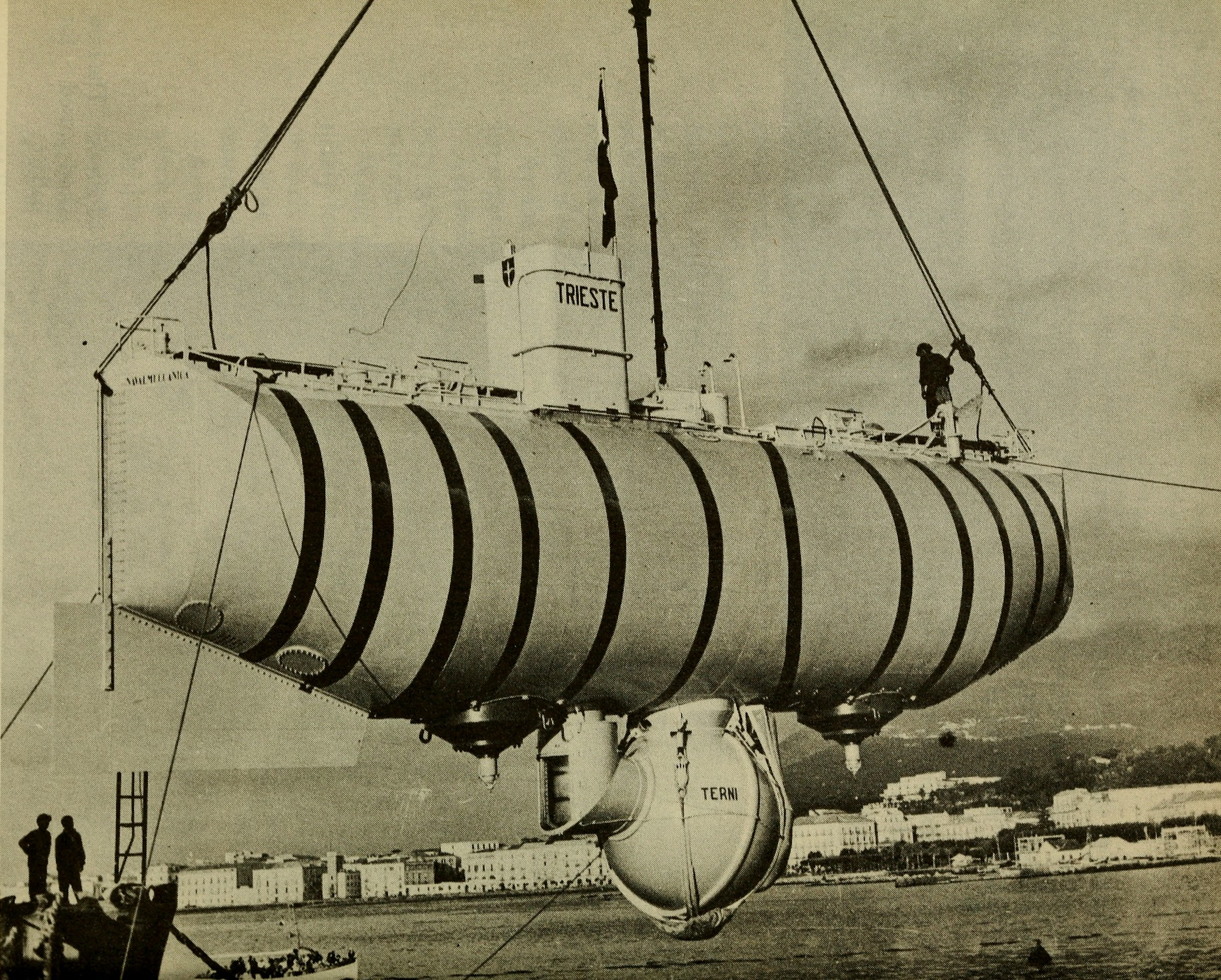 Title: Earth, sky, and sea Year: 1956 (1950s) Authors: Piccard, Auguste, 1884-1962 Subjects: Trieste (Bathyscaphe); Balloons Publisher: New York, Oxford University Press Text Appearing Before Image: ' Text Appearing After Image: X V J2 'C